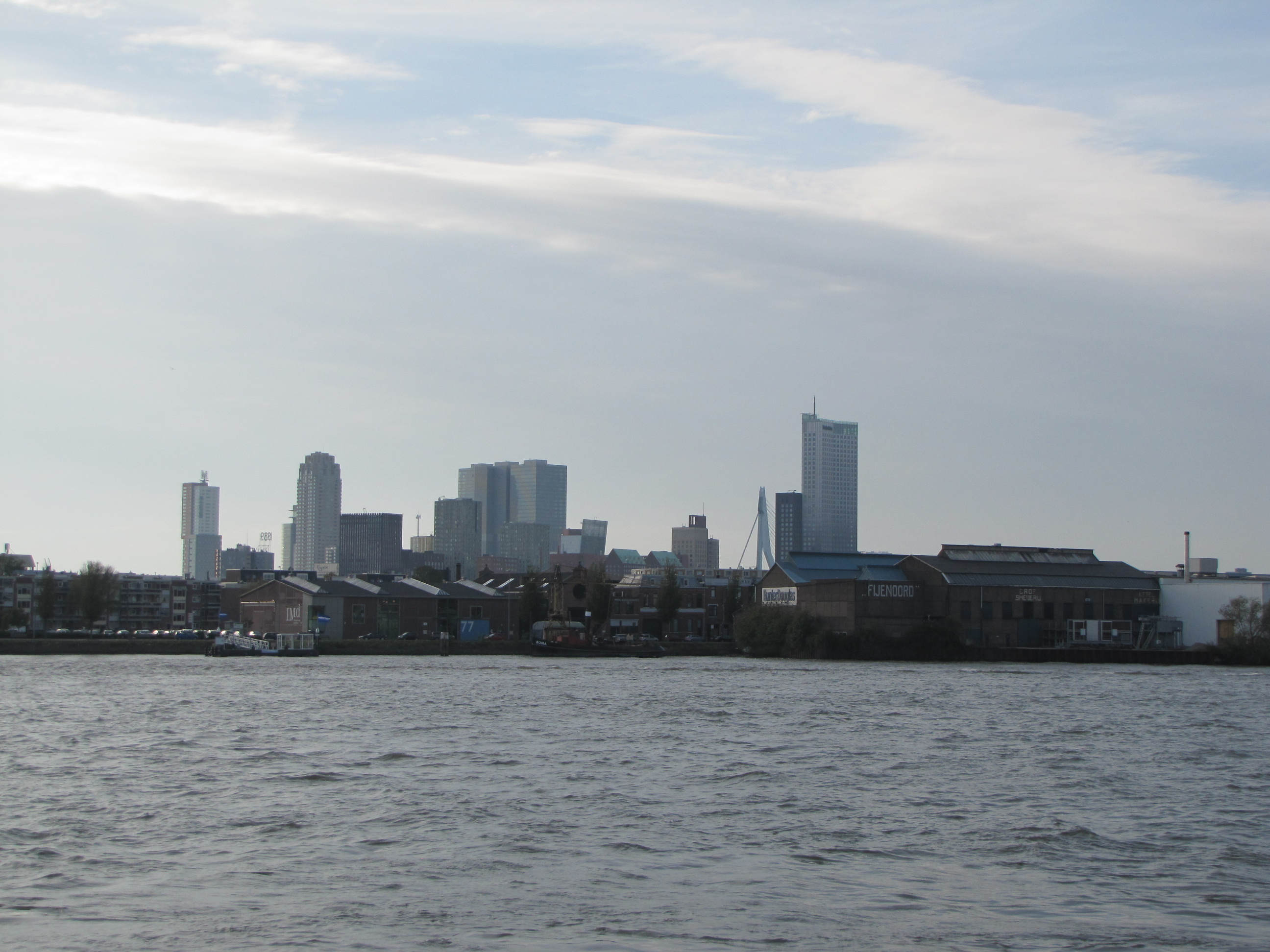 Nieuwe Maas and Rotterdam Skyline, panoramic view from the Esch